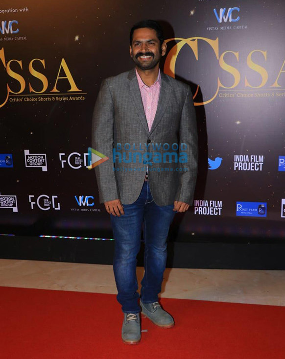 Sharib Hashmi at the Critics Choice Shorts & Series Awards 2019